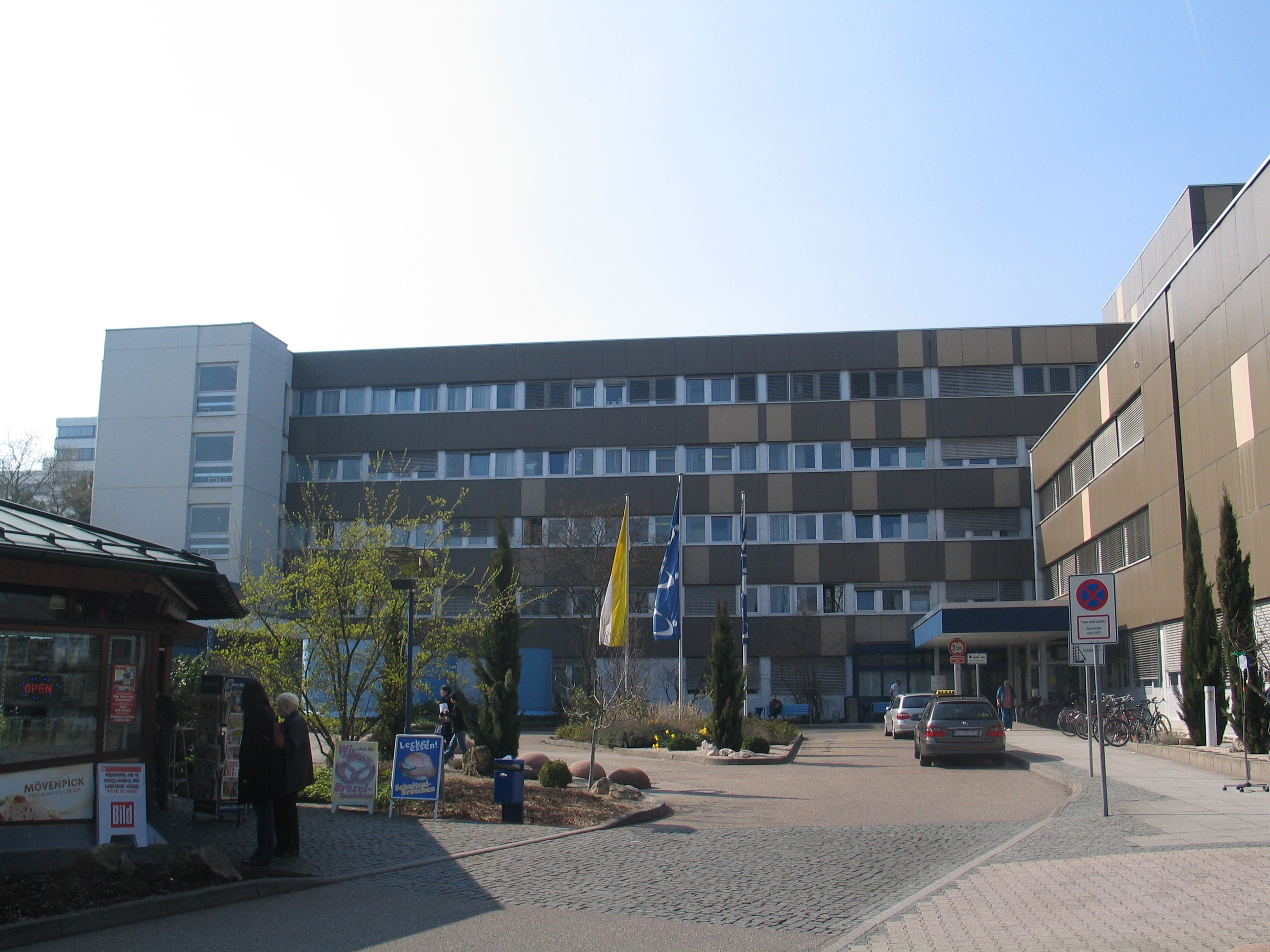 Main entry of the St. Vincentius-Hospital in Karlsruhe